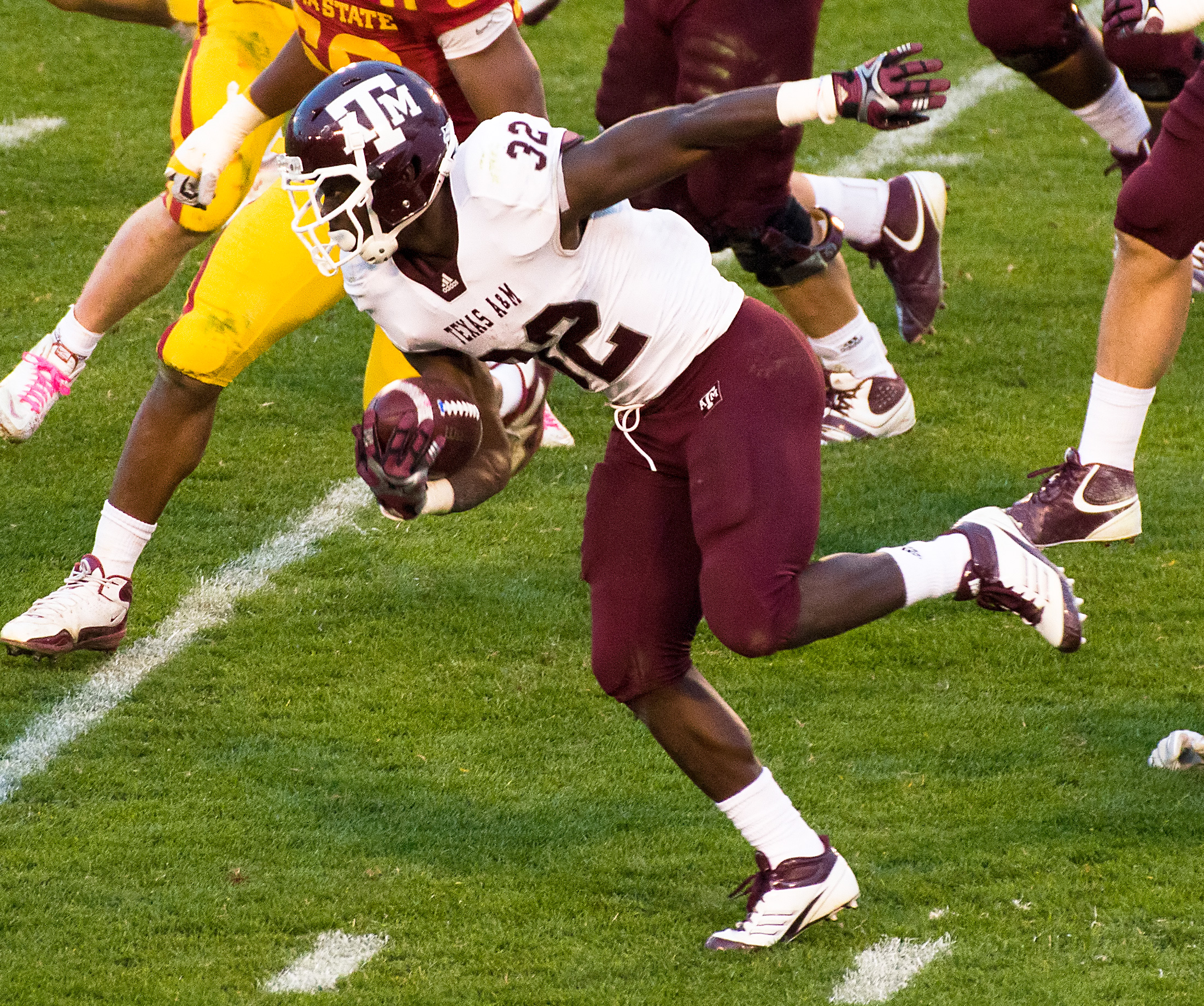 Cyrus Gray of Texas A&M.